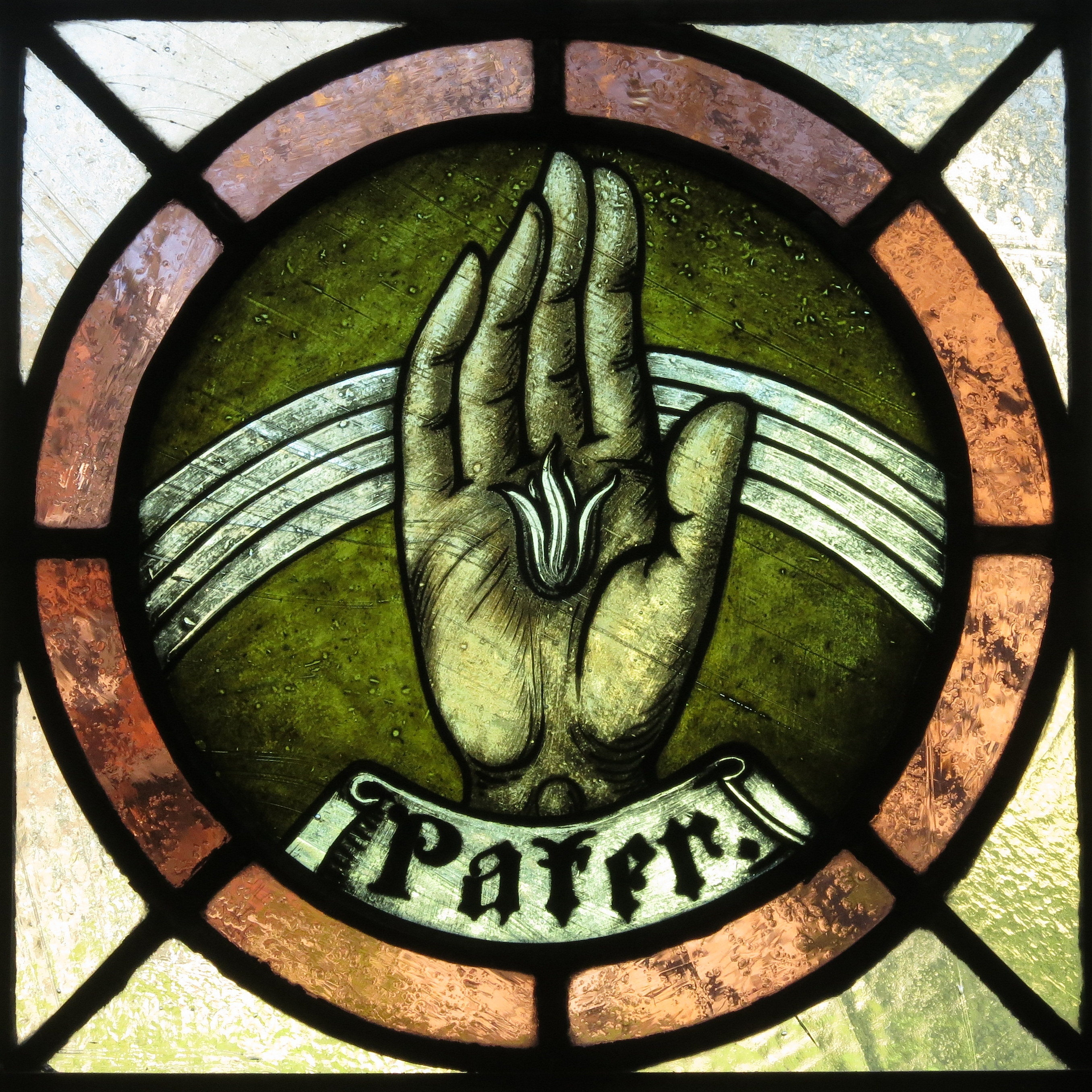 Saint Vincent de Paul Catholic Church (Mount Vernon, Ohio) - stained glass, Father